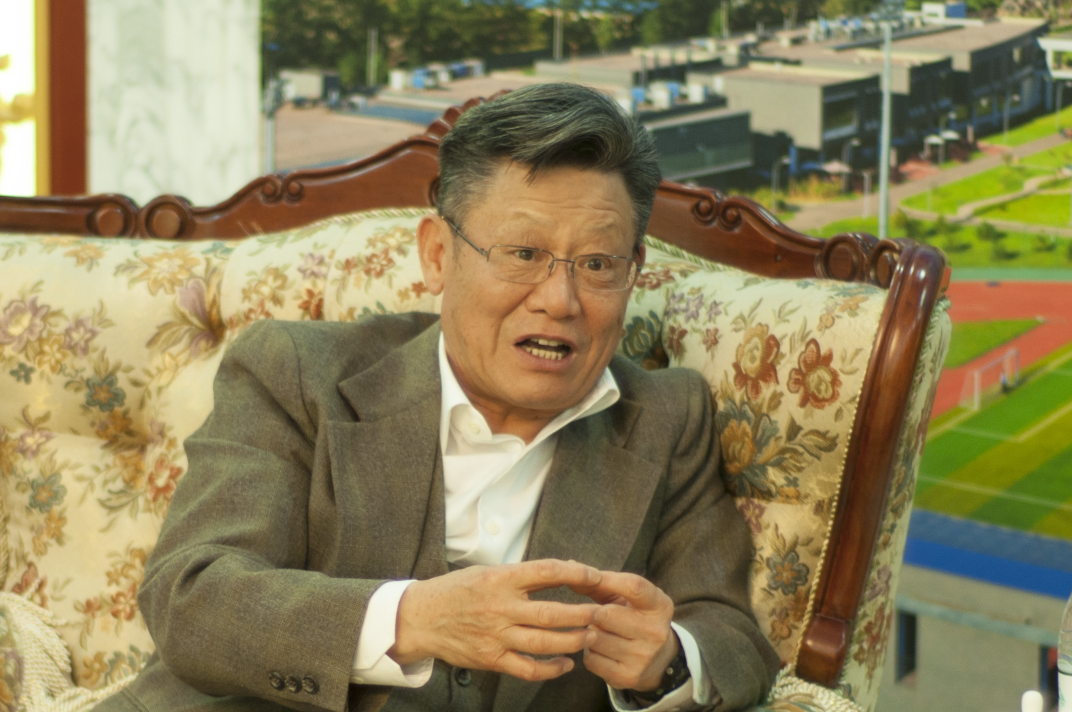 Sha Zukang, former Under Secretary General of United Nations in an interview of Beijing Model United Nations 2015, held in China Foreign Affairs University